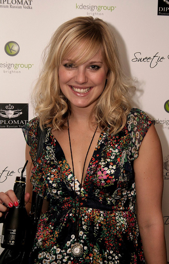 Hollyoaks star Zoe Lister at an event